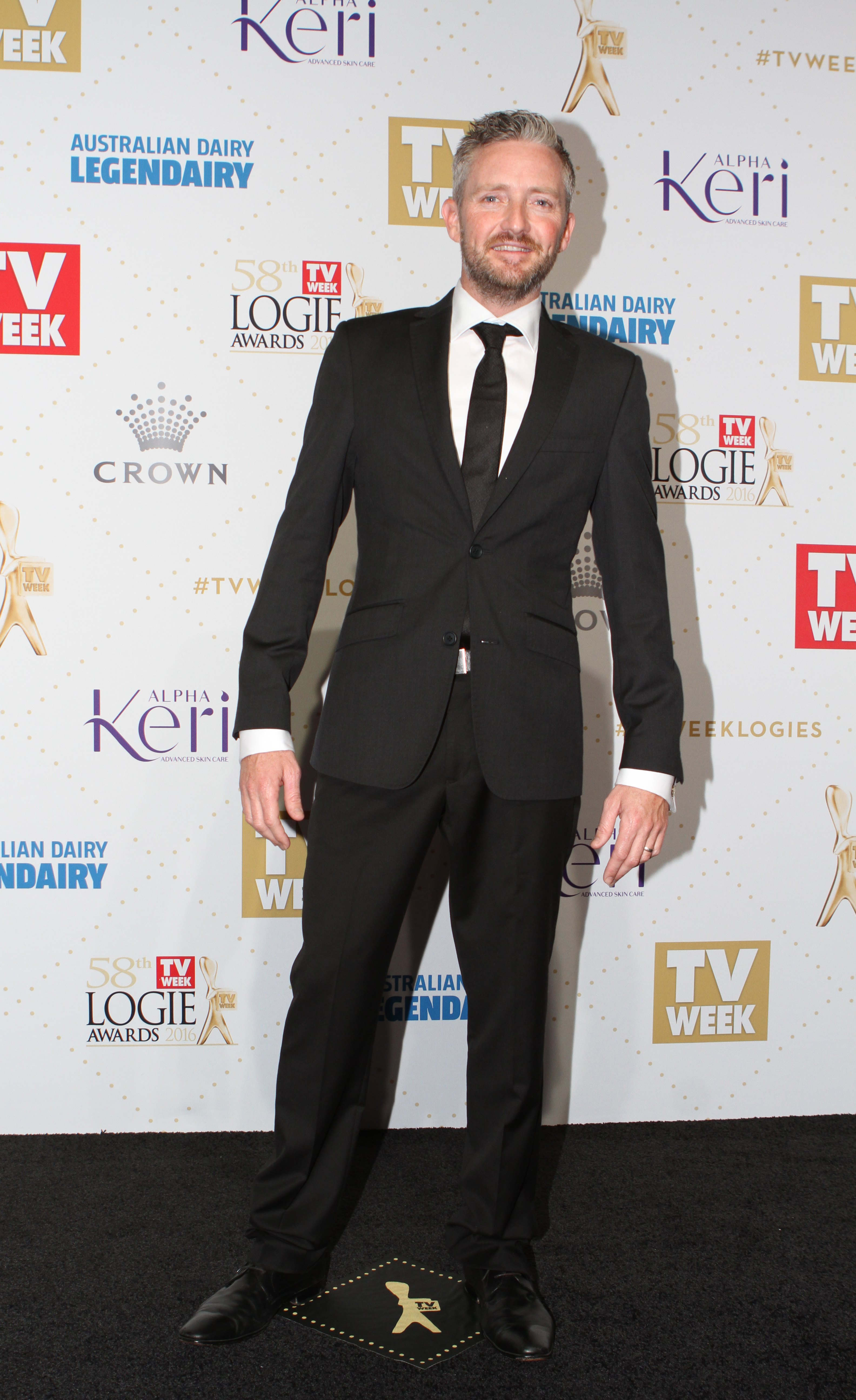 Stephen Curry 2016 TV Week Logie Awards